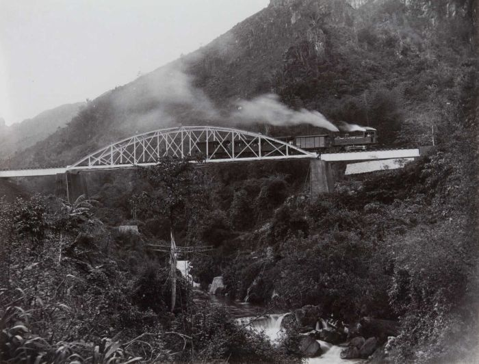 Locomotive passes iron railway bridge near Payakumbuh